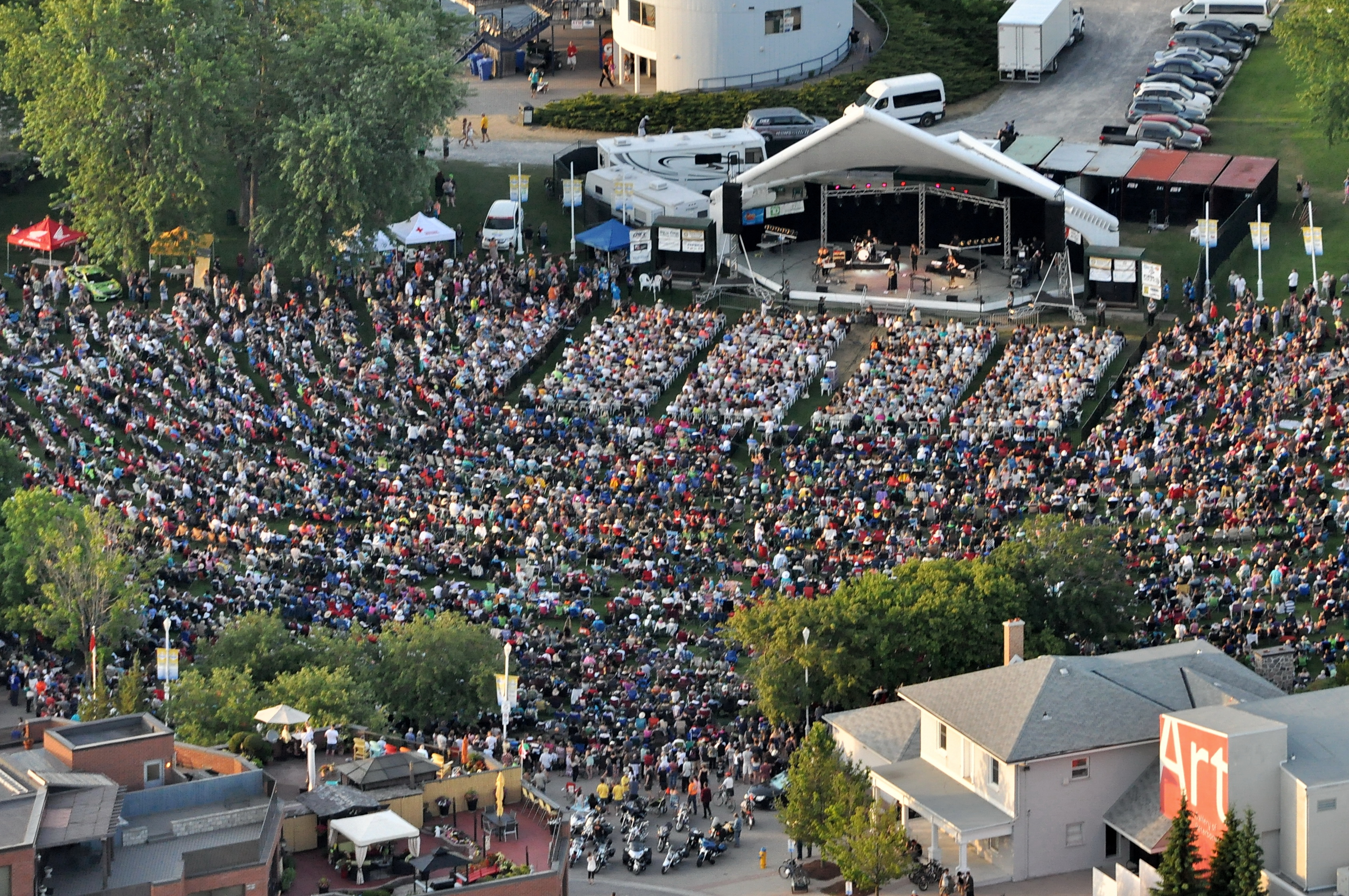 Serena Ryder opened Peterborough Musicfest's 30th Anniversary Season on June 25, 2016. An estimated 16,000 people were in attendance at Del Crary Park.